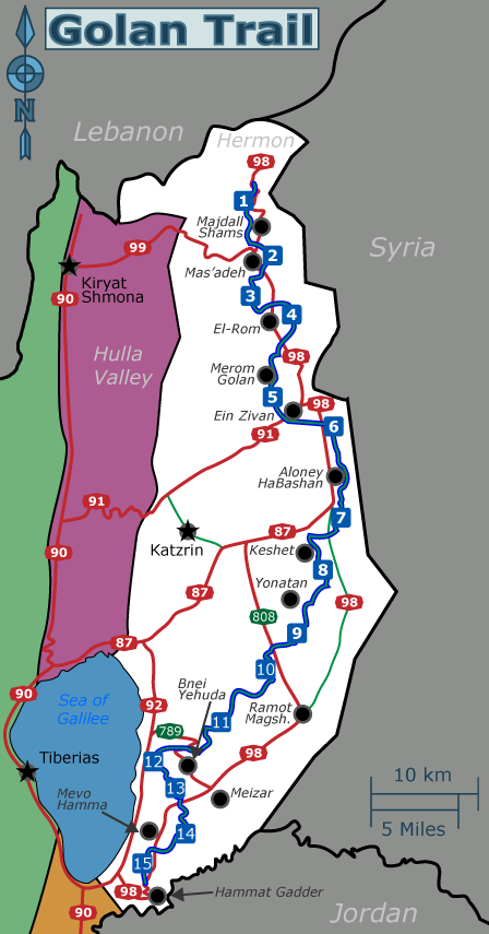 Schematic map of the Golan Heights showing main roads, several settlements and the Golan Trail (marked with a dotted green line) with trail-section numbers.